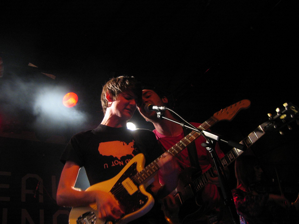 Los Campesinos! at the Nouveau Casino on 4 March 2008. Neil, Tom, Harriet